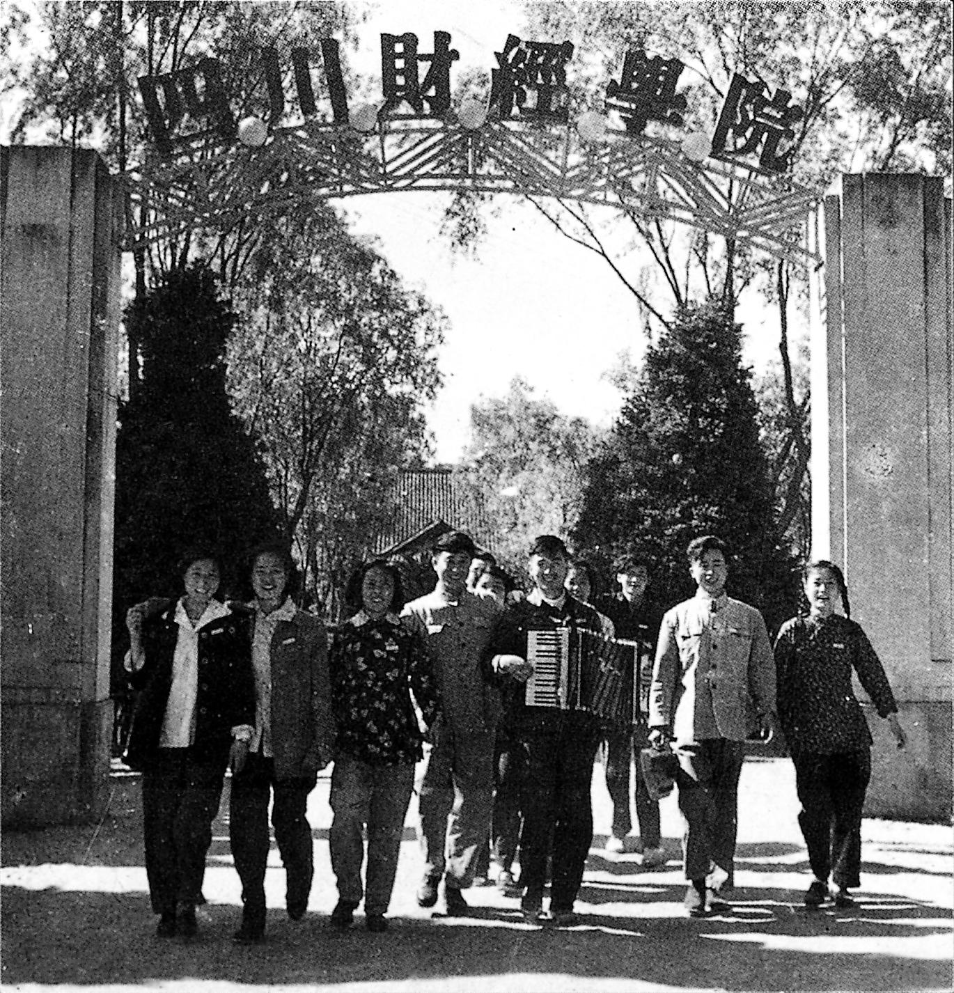 Students of Sichuan Institute of Finance and Economics in 1952 at the school gate